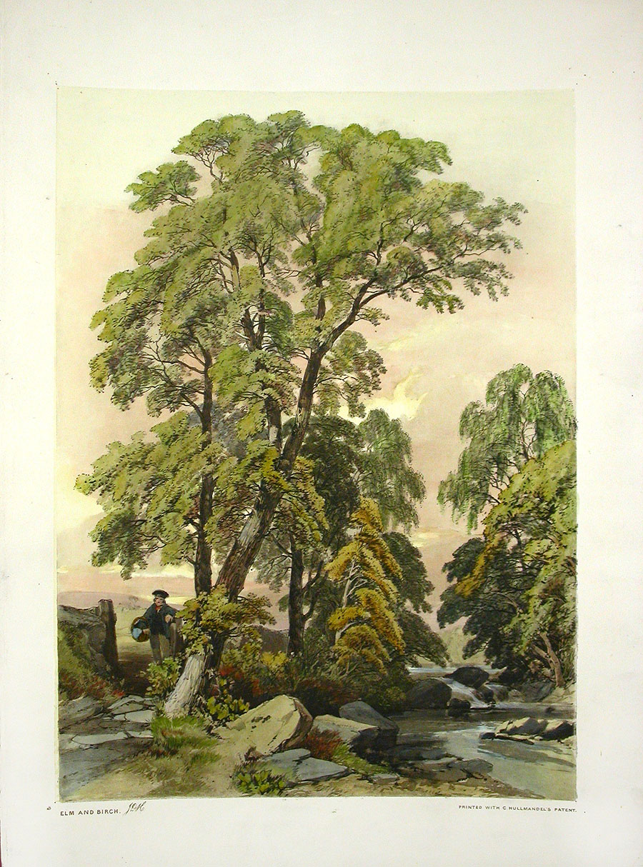 Hand-coloured tree and landscape lithographs from a collection of prints by James Duffield Harding entitled "The Park and the Forest", published 1841.